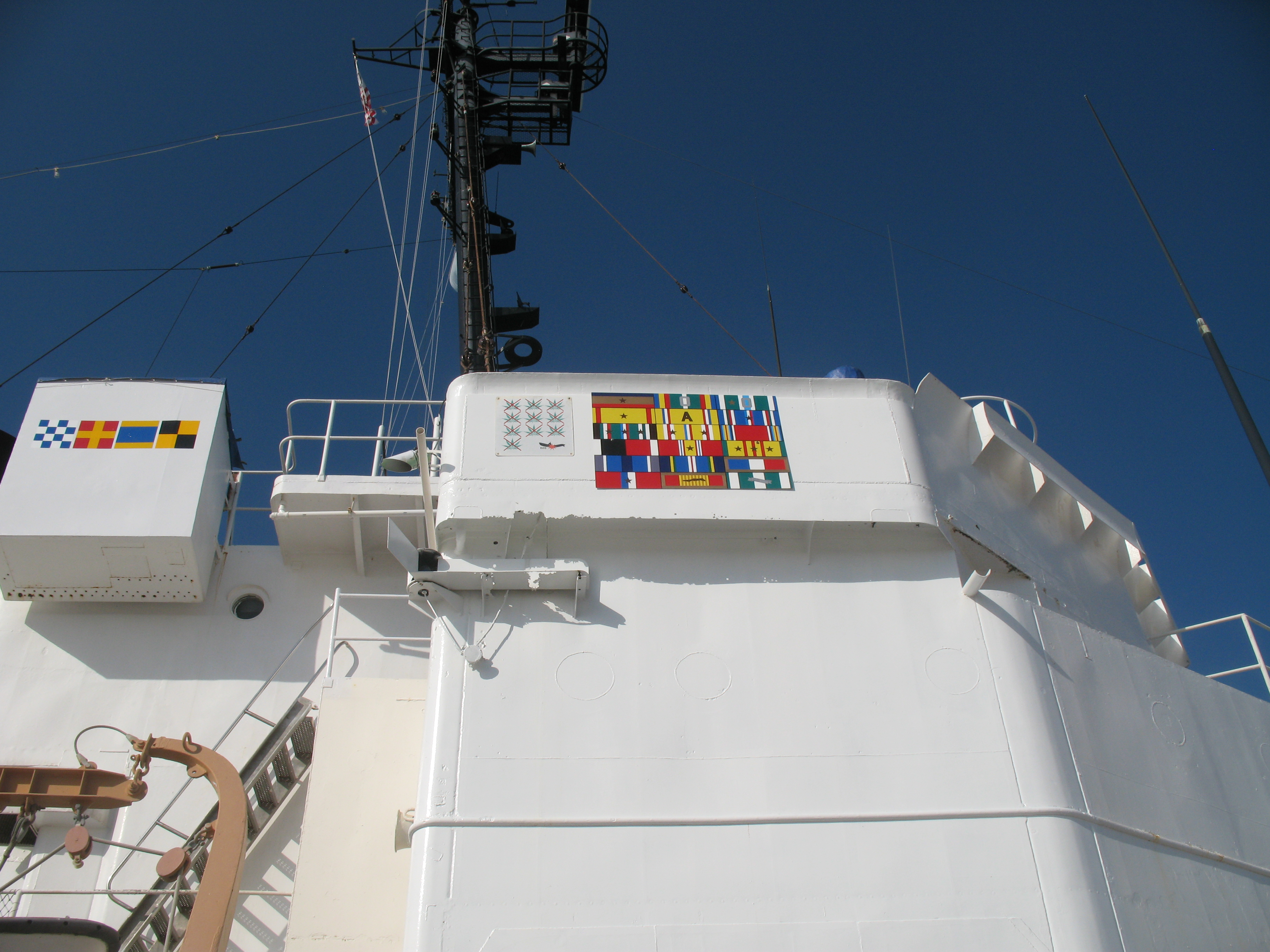 USCGC Ingham (WHEC-35), A photo of the cutter Ingham in January 2010.